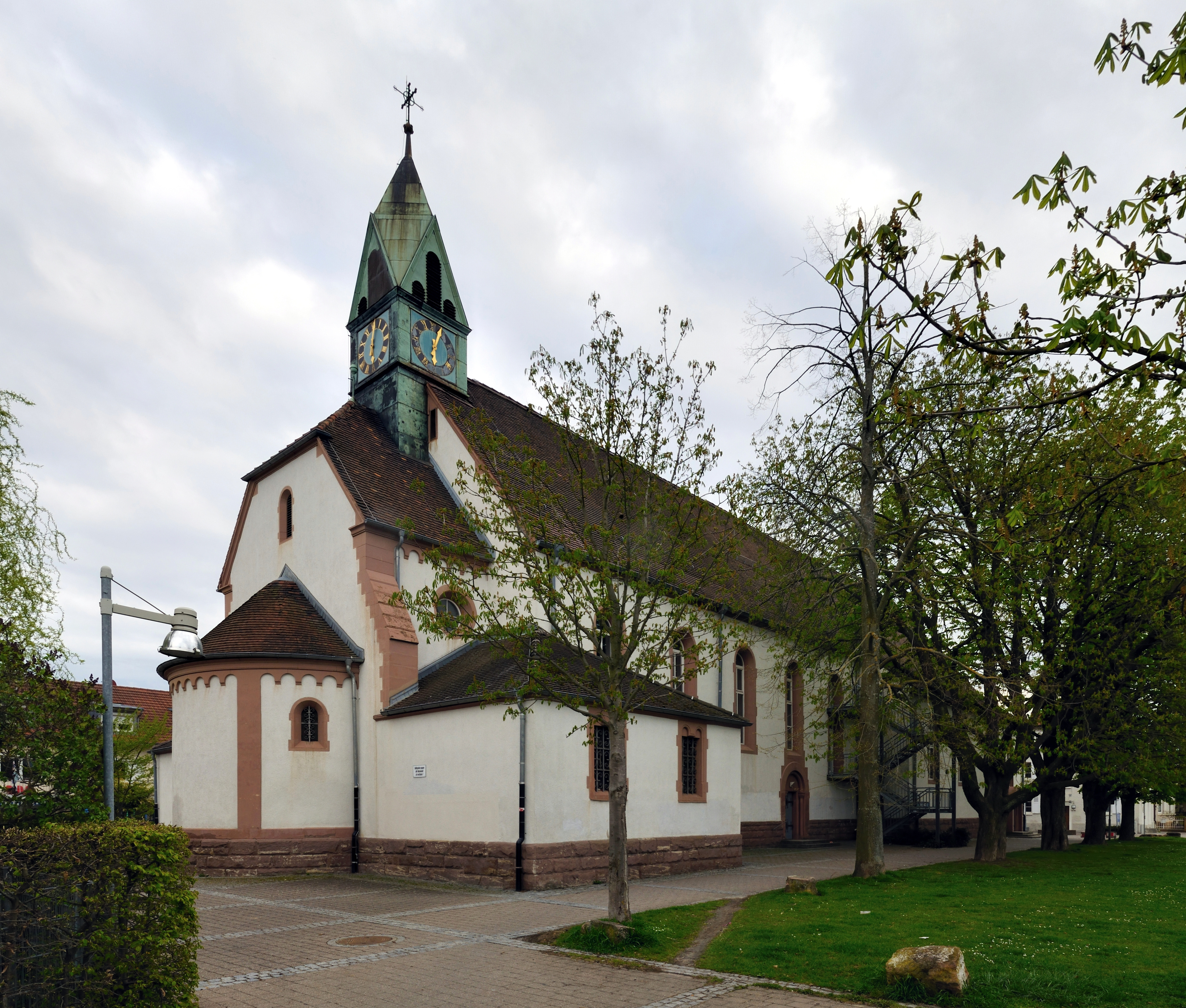 Weil am Rhein: municipal library (formar Saint Peter and Paul Church)